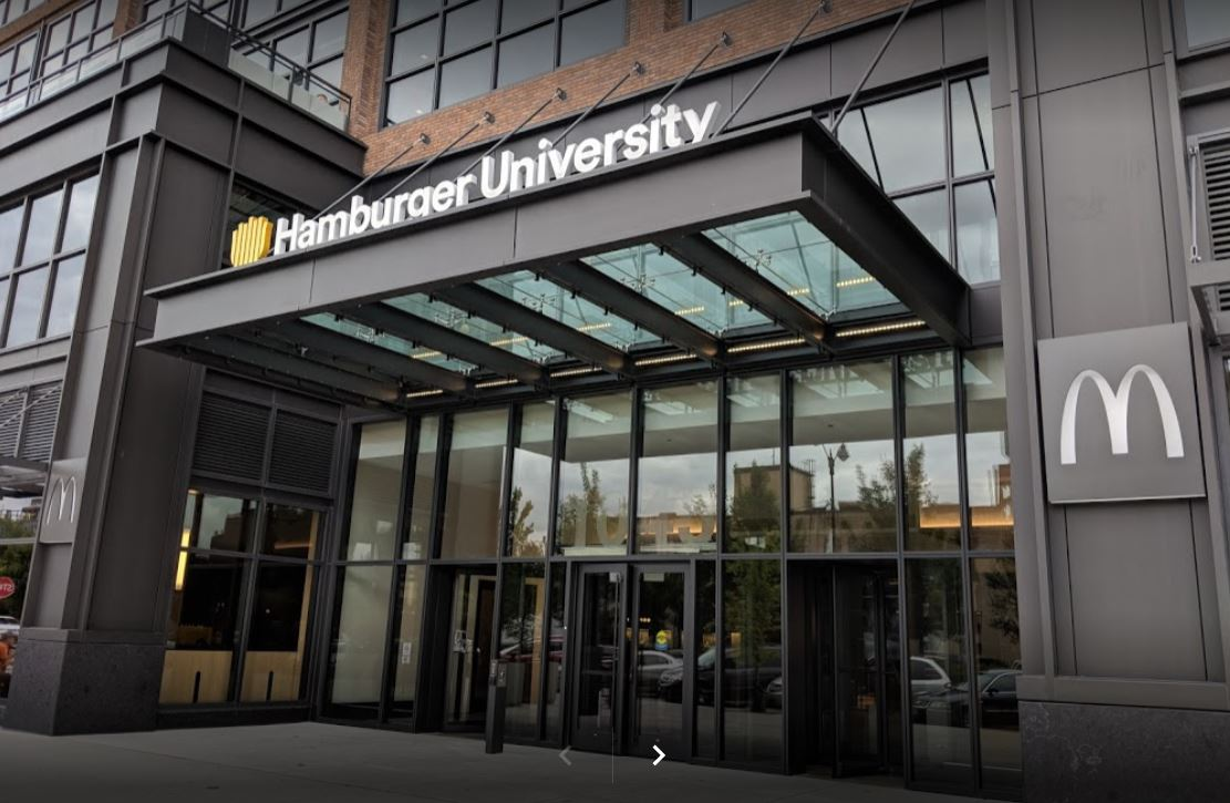 2018 Hamburger University